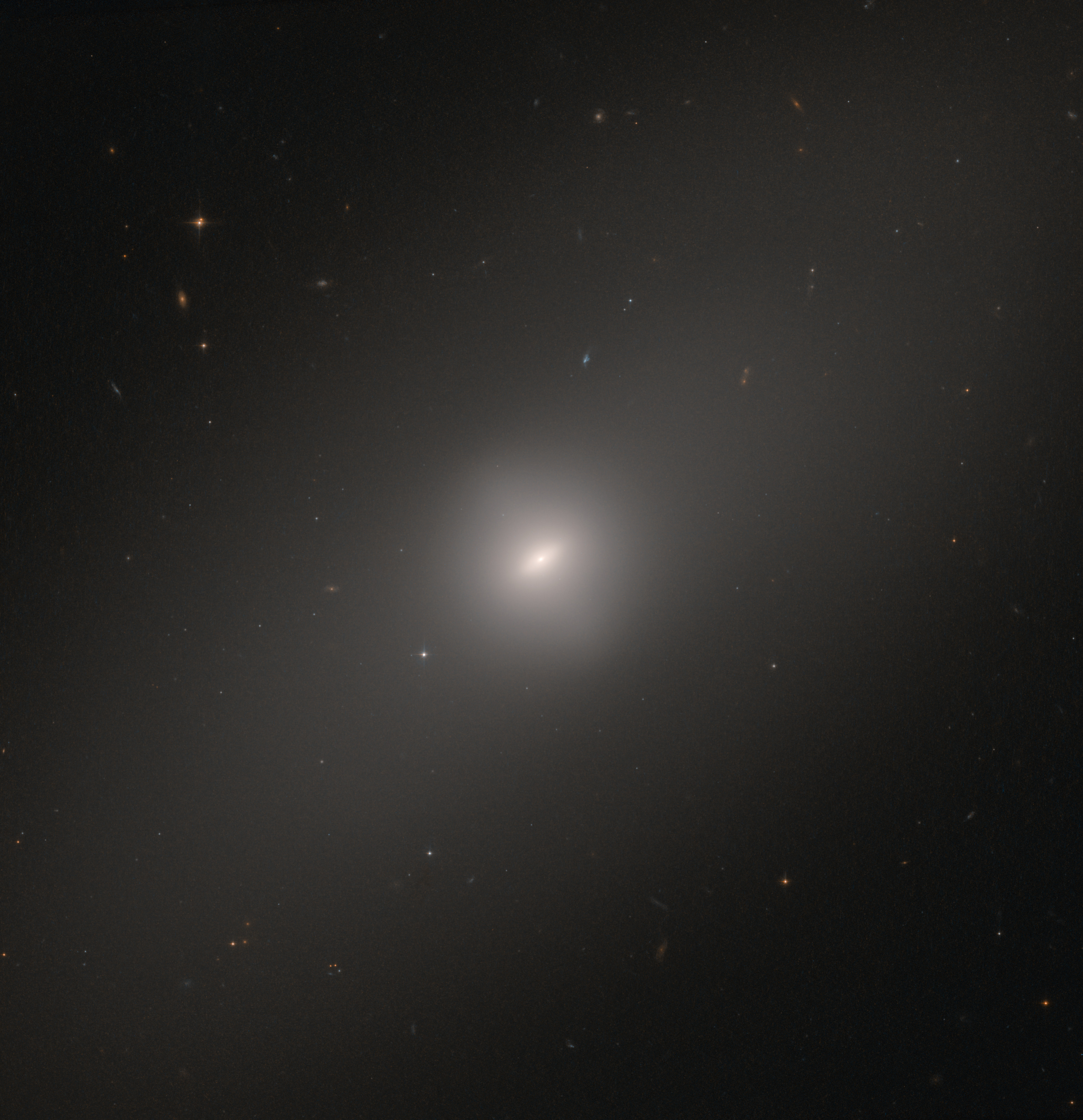 NGC 3384, visible in this image, has many of the features characteristic of so-called elliptical galaxies. Such galaxies glow diffusely, are rounded in shape, display few visible features, and rarely show signs of recent star formation. Instead, they are dominated by old, ageing, and red-hued stars. This stands in contrast to the sprightliness of spiral galaxies such as our home galaxy, the Milky Way, which possess significant populations of young, blue stars in spiral arms swirling around a bright core. However, NGC 3384 also displays a hint of disc-like structure towards its centre, in the form of a central ‘bar’ of stars cutting through its centre. Many spirals also boast such a bar, the Milky Way included; galactic bars are thought to funnel material through and around a galaxy’s core, helping to maintain and fuel the activities and processes occurring there. NGC 3384 is located approximately 35 million light-years away in the constellation of Leo (The Lion). This image was taken using the NASA/ESA Hubble Space Telescope’s Advanced Camera for Surveys.